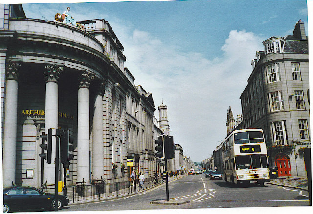 King Street from the Castlegate. This is the main road north from the city centre. The imposing building on the left was first the North of Scotland Bank, then Clydesdale Bank and today is the "Archibald Simpson's" pub. This is in honour of Aberdeen's most famous architect, designer of this granite building and many others in the city centre.